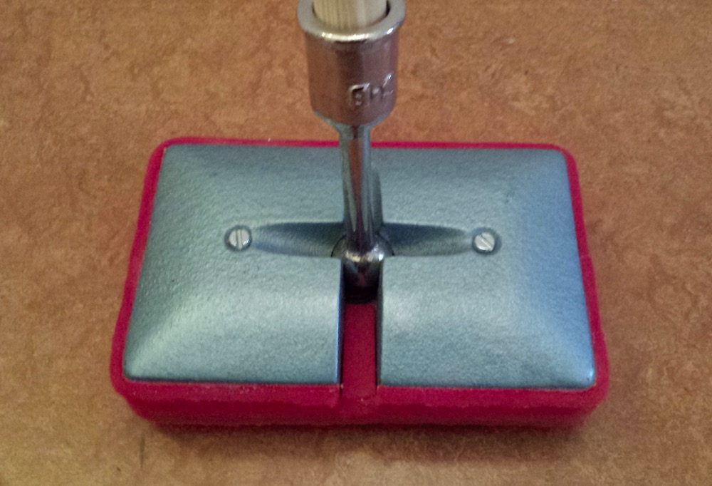 Broom